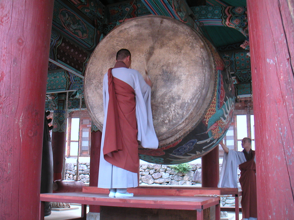 Monk's drumming before their worships at Haeinsa (해인사, Temple of Reflection on a Smooth Sea). The temple is one of the foremost Chogye Buddhist temples in South Korea. It is most notable for being the home of the Tripitaka Koreana, the whole of the Buddhist Scriptures carved onto 81,258 wooden printing blocks, which it has housed since 1398.